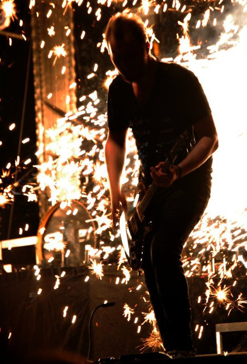 Ben Kasica performing with Skillet at the Cornerstone Music Festival in Bushnell, IL, on July 1, 2010.